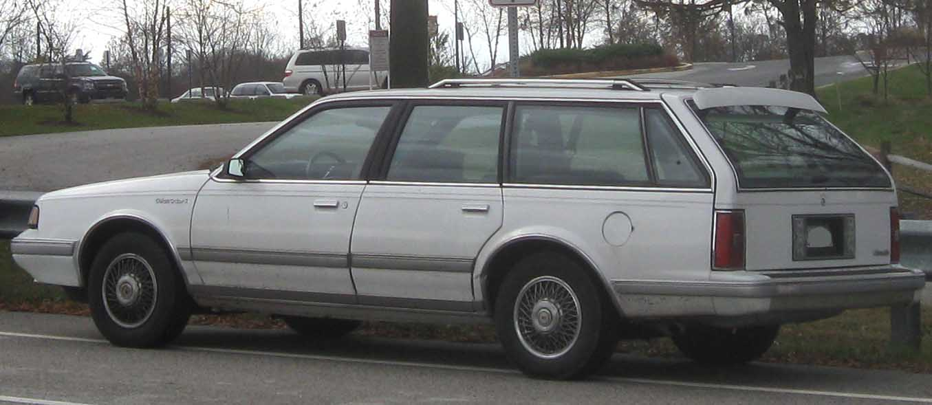 Oldsmobile Cutlass Cruiser photographed in College Park, Maryland, USA.